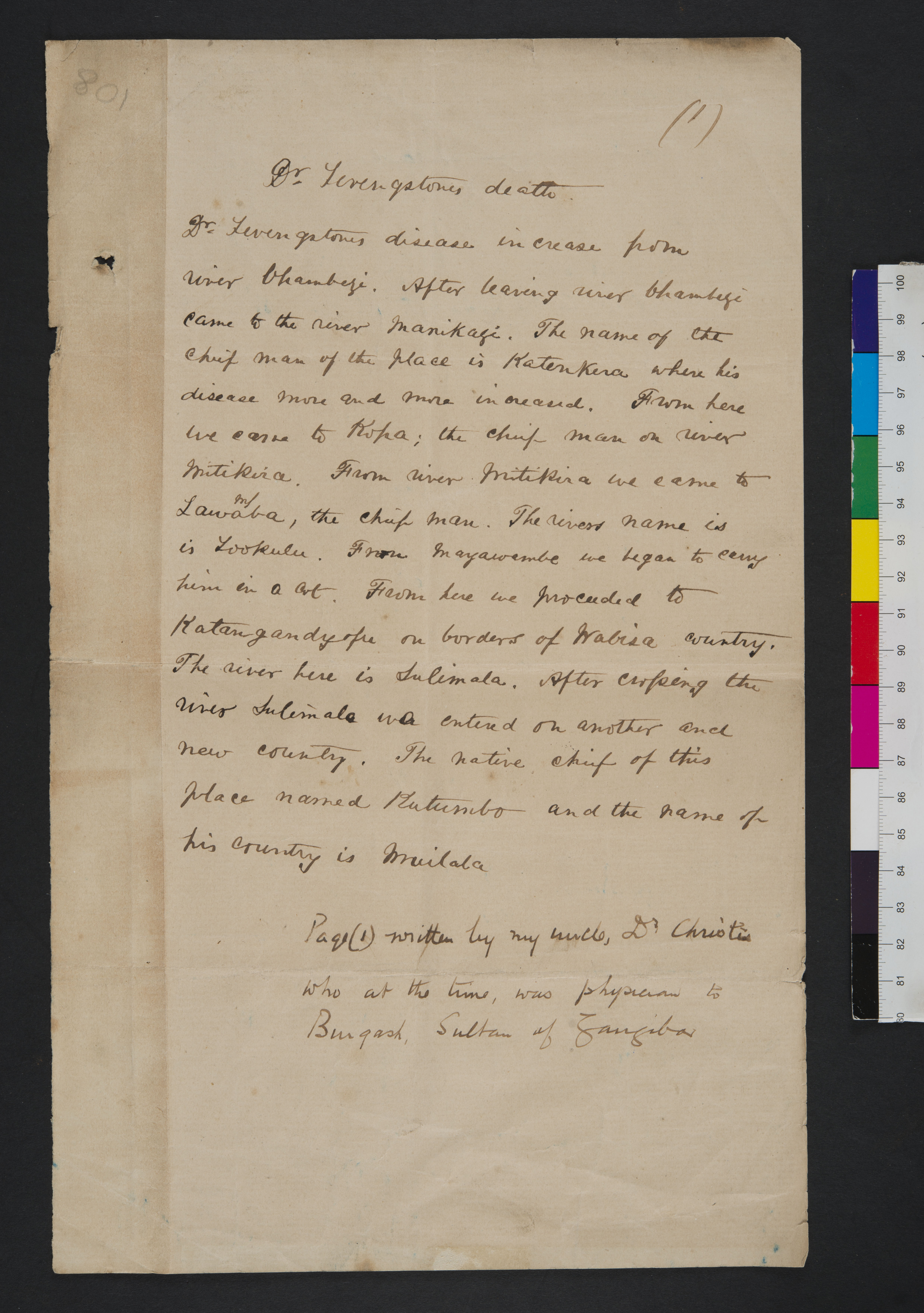 Original item held by David Livingstone Birthplace Museum